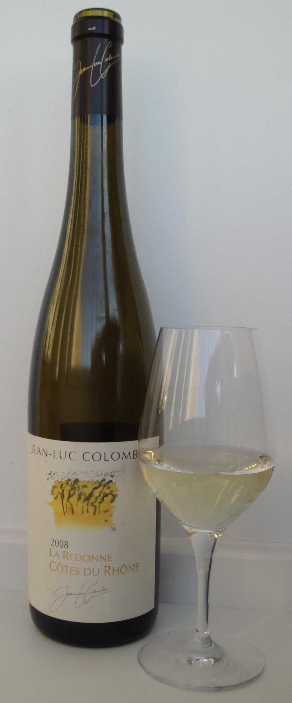 La Redonne 2008, a Côtes du Rhône Blanc from Jean-Luc Colombo from Viognier and Roussanne